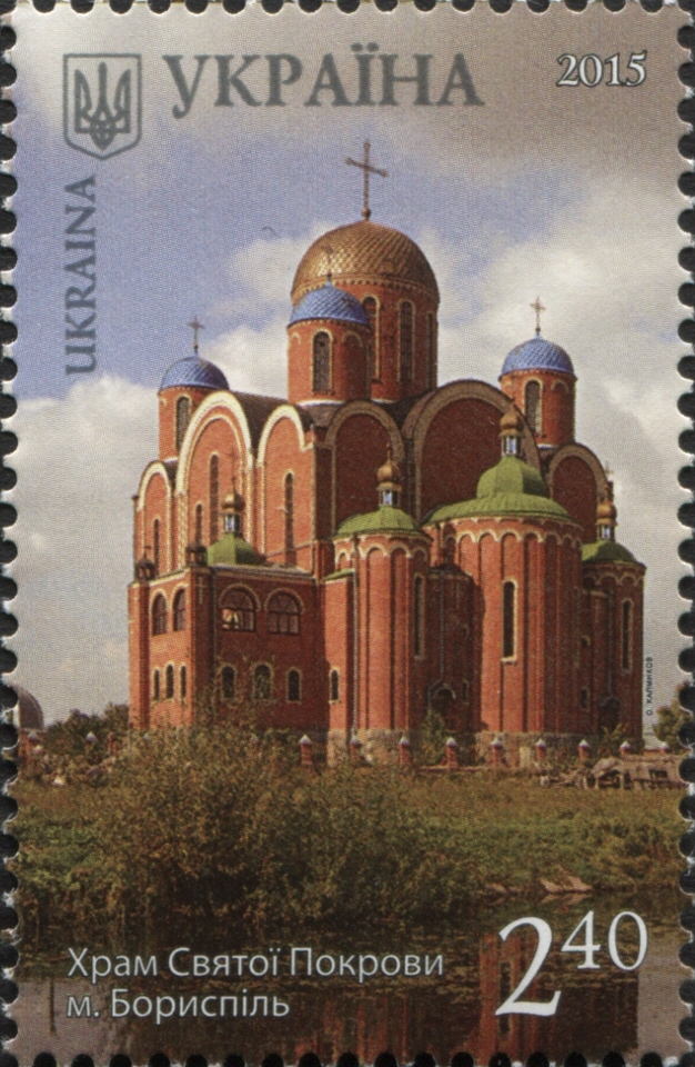 Stamps of Ukraine, 2015